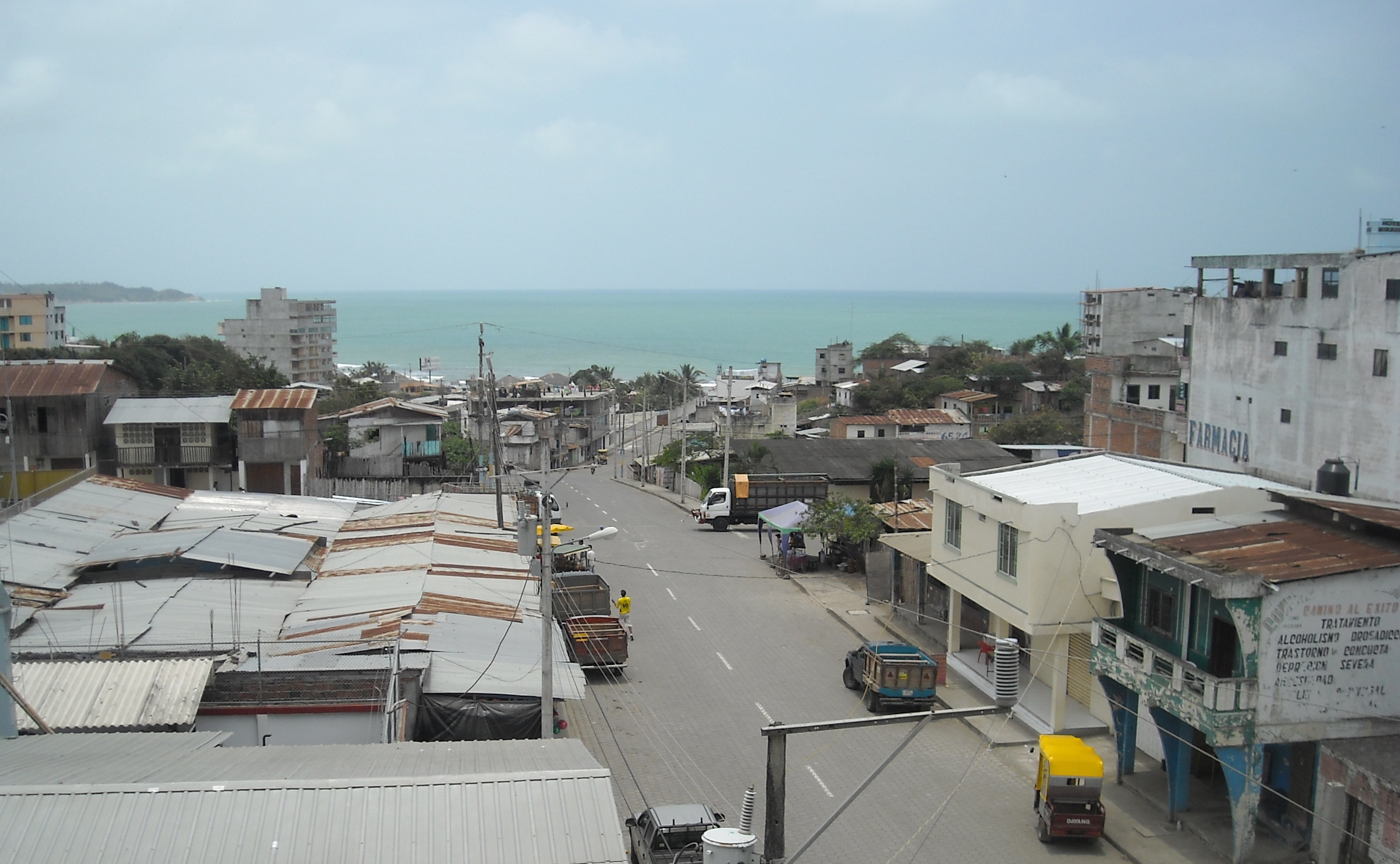 Pedernales' s view, in 2010.